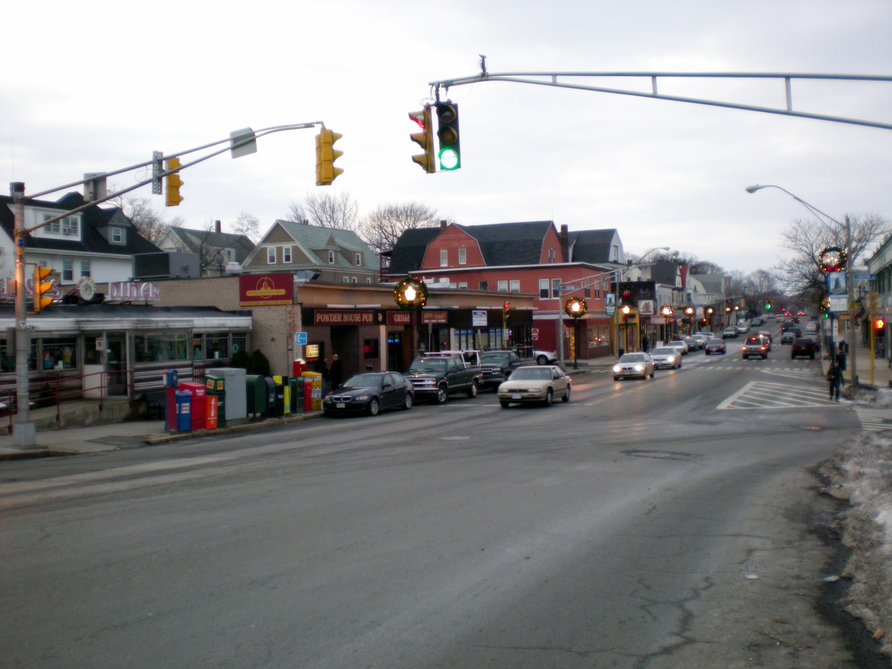 Ball Square from the bridge where Broadway crosses the Lowell Commuter Rail Line. Kelly's Diner is all the way to the left, followed by the Powder House Pub and other establishments.